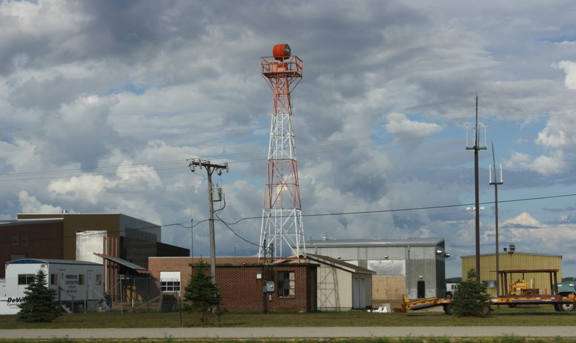 The tower for the Pellston, Michigan airport.